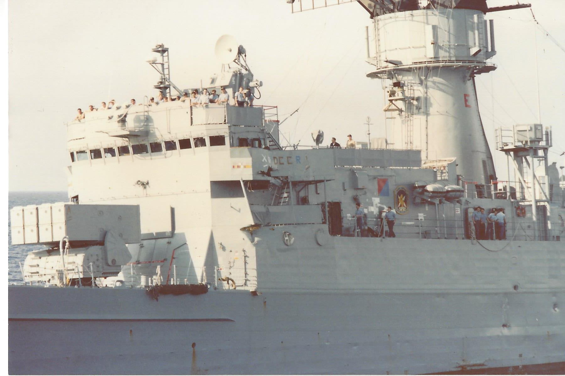 Shot from USS Stump DD 978 showing damage to bridge wing